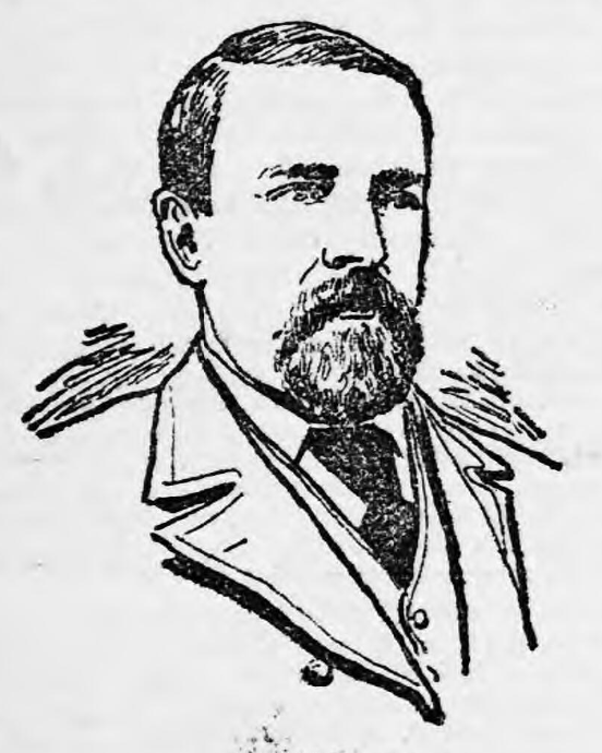 Isaac Evans, Welsh coal mining trade union leader and Liberal-Labour politician